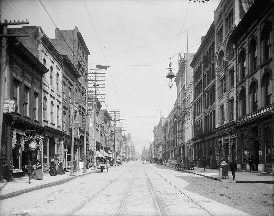 Gay Street in Knoxville, Tennessee, USA, looking north from Union Avenue. The Sanford, Chamberlain and Albers Building (430 S. Gay) on the far right is now an Arby's; the two buildings immedately to its left-- the light-colored two-bay structure and the darker 8-bay structure (the Woodruff's Building) are still standing.